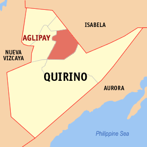 Map of Quirino showing the location of Aglipay